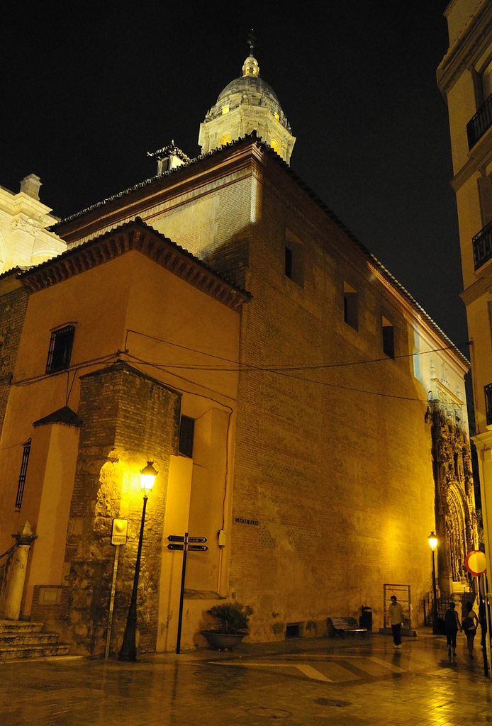 Sagrario Church, Malaga, Spain.